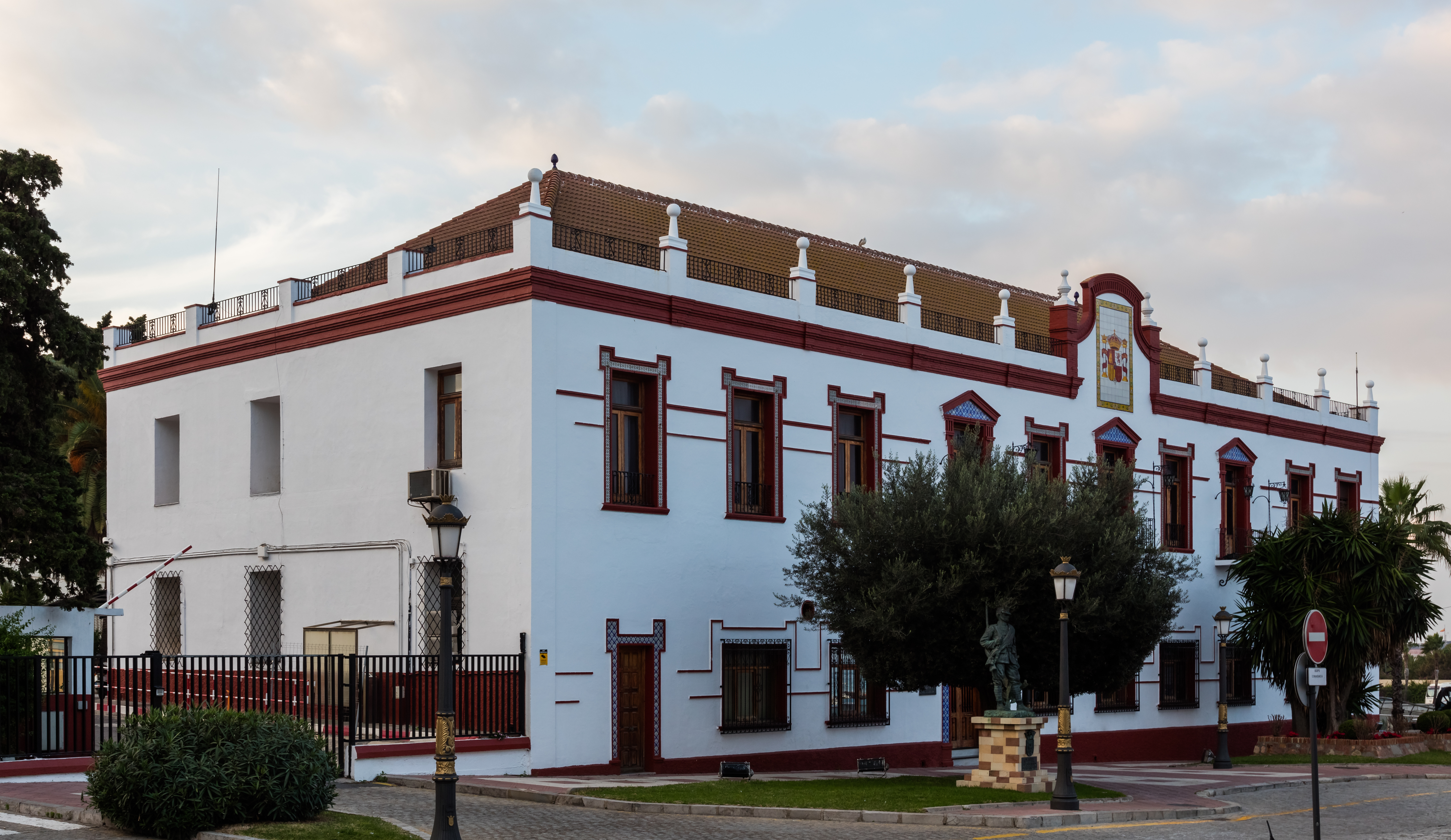 Command Headquarters of Ceuta, Ceuta, Spain